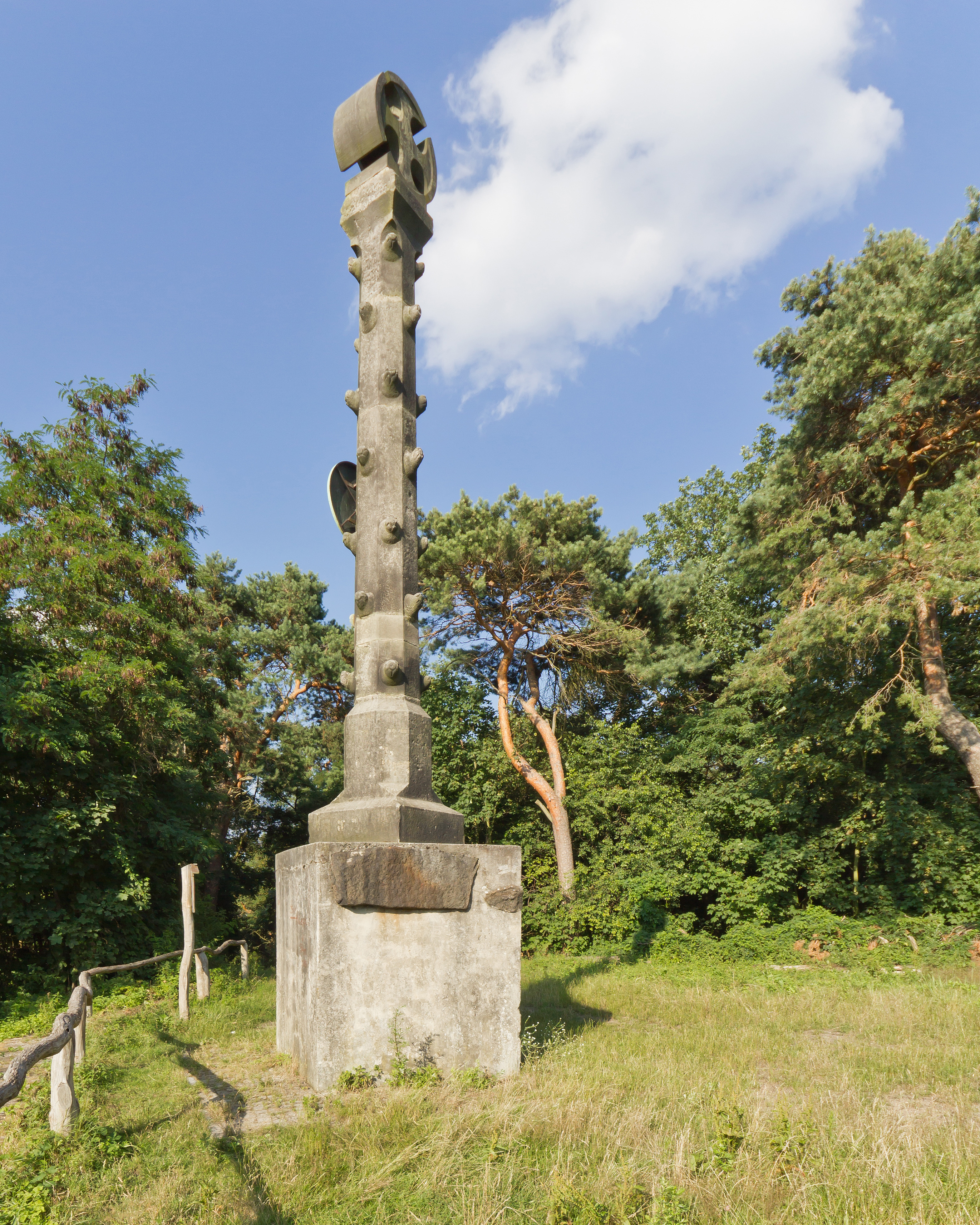 The Jacza monument at Schildhorn in Berlin, Germany